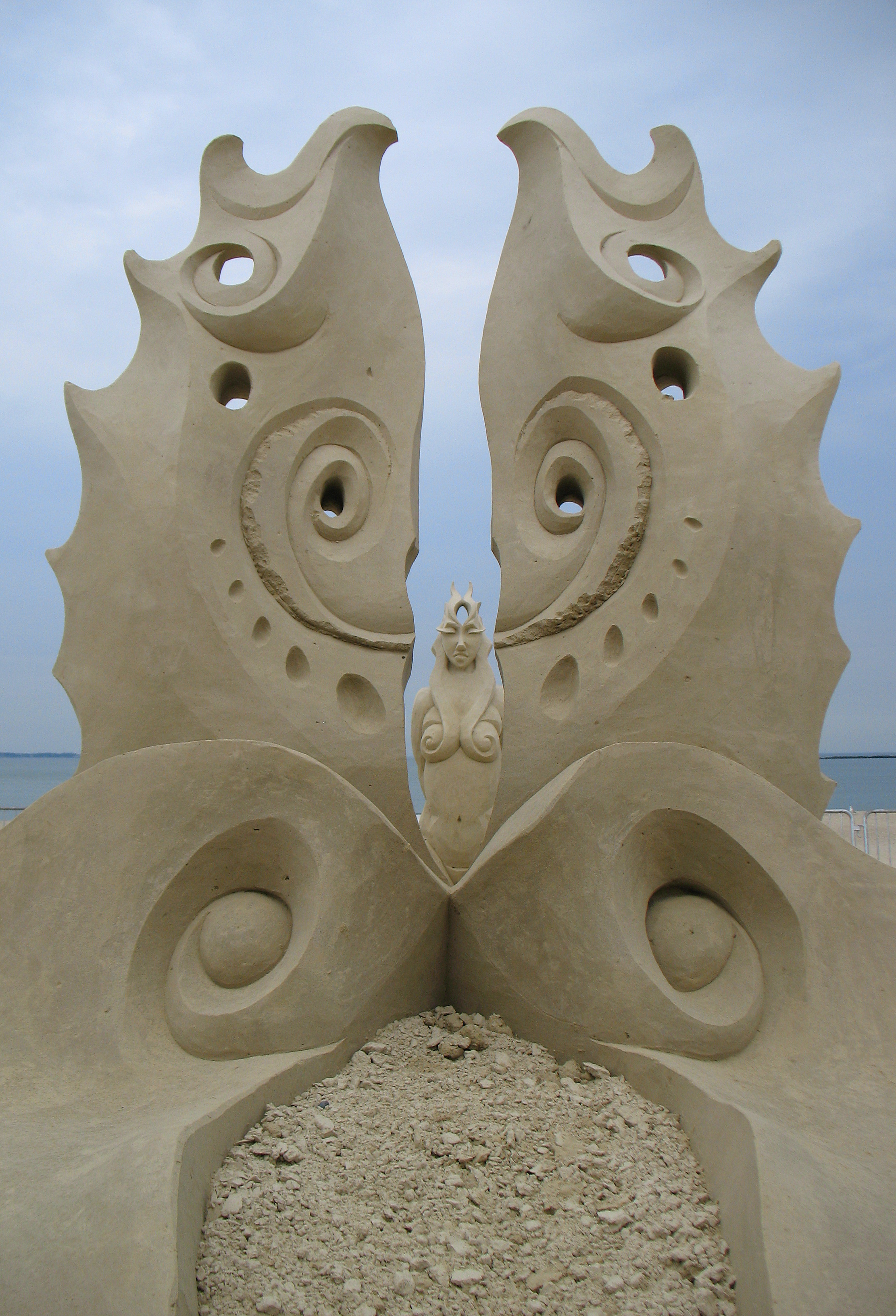 Revere Beach Massachusetts annual festival